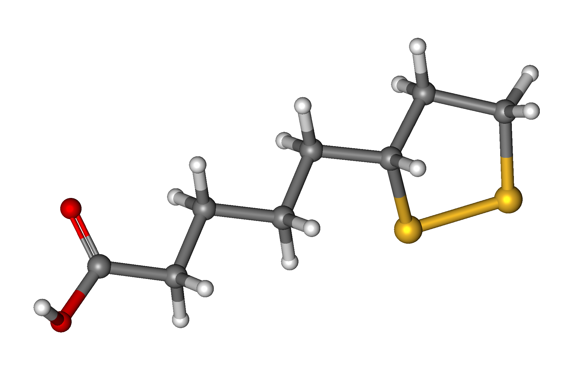 Ball-and-stick model of lipoic acid molecule. The structure is taken from ChemSpider. ID 5886